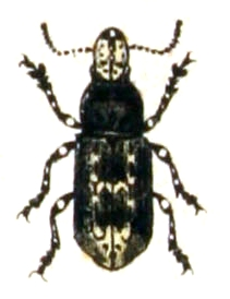 Tropideres albirostris, from Calwer's Käferbuch, Table 30, Picture 14. Taxonomy was updated to 2008, using mostly the sites Fauna Europaea and BioLib. Please contact Sarefo if the determination is wrong!